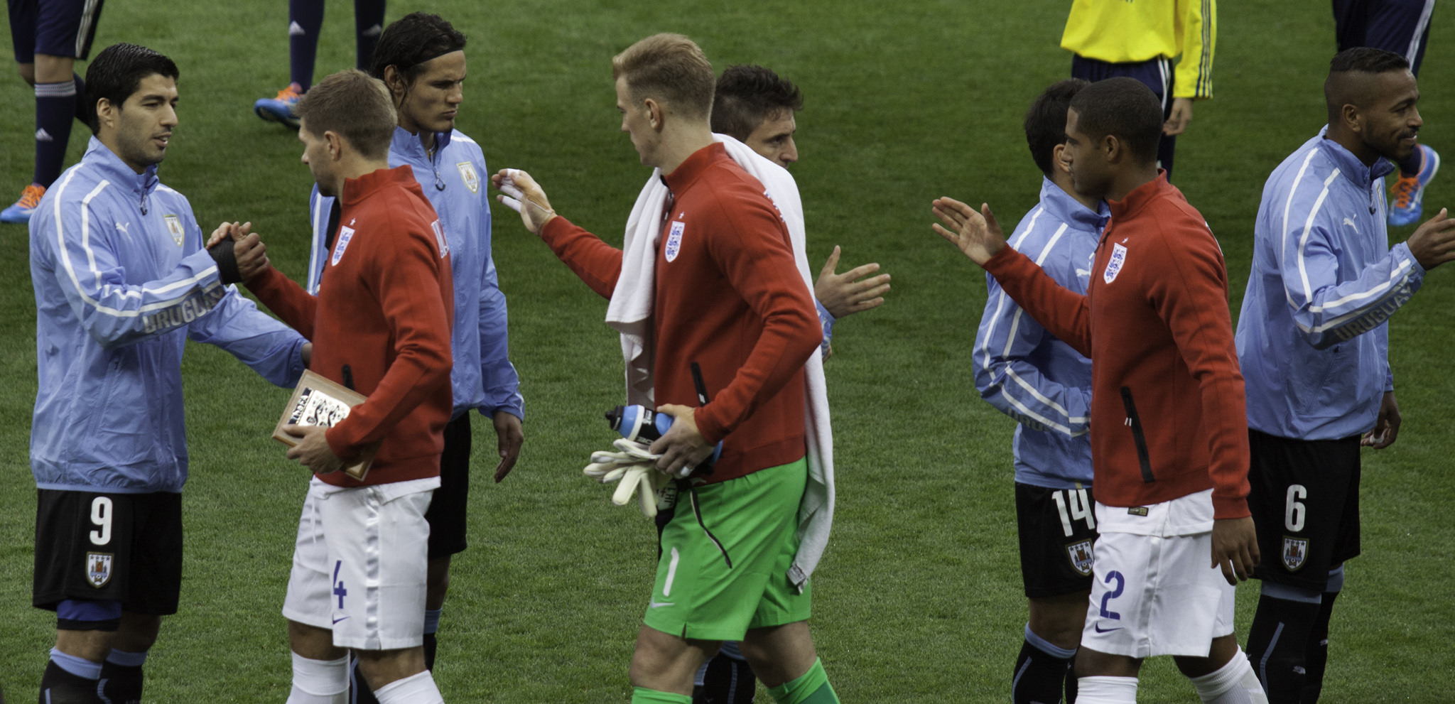 Uruguay and England match at the FIFA World Cup 2014-06-19, Arena Corinthians, São Paulo, Brazil.